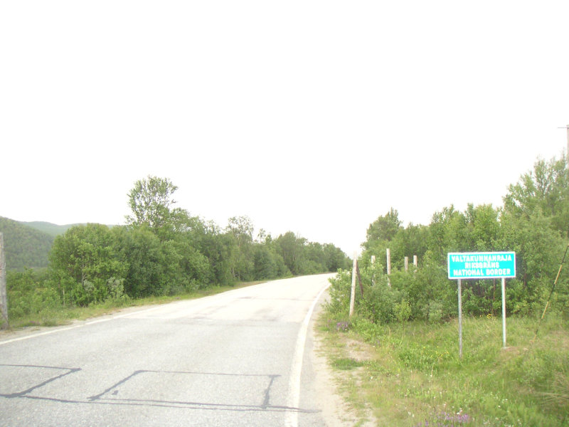 Finnish–Norwegian border crossing Nuorgam–Polmak (Njuorggán) and the northernmost point of Finland and the European Union. Looking east into Norway.